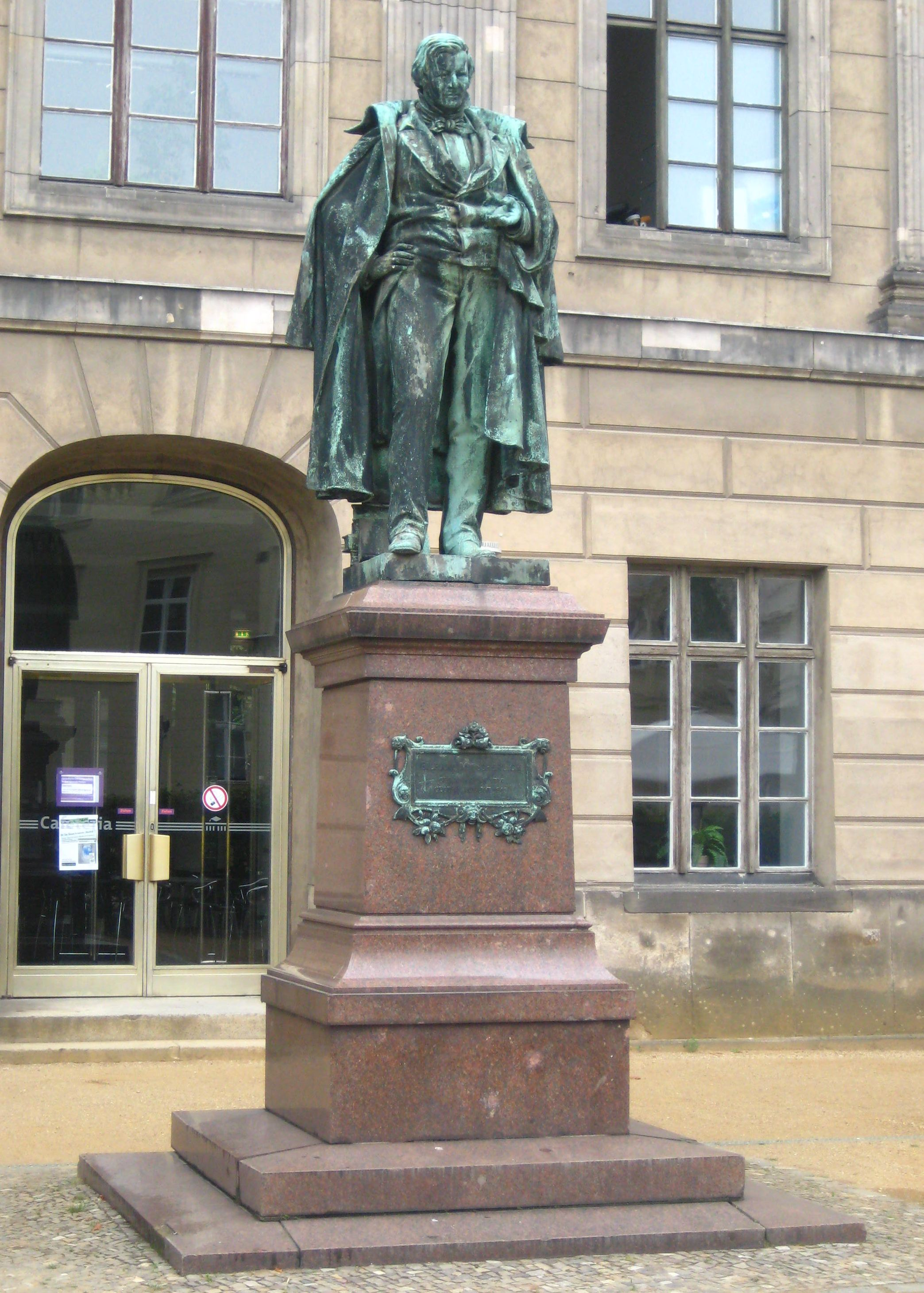 Statue of Eilhard Mitscherlich in front of the east wing of the main building of Humboldt University in Berlin-Mitte. The memorial was created in 1894 by Carl Ferdinand Hartzer. It has been designated as a historic landmark.